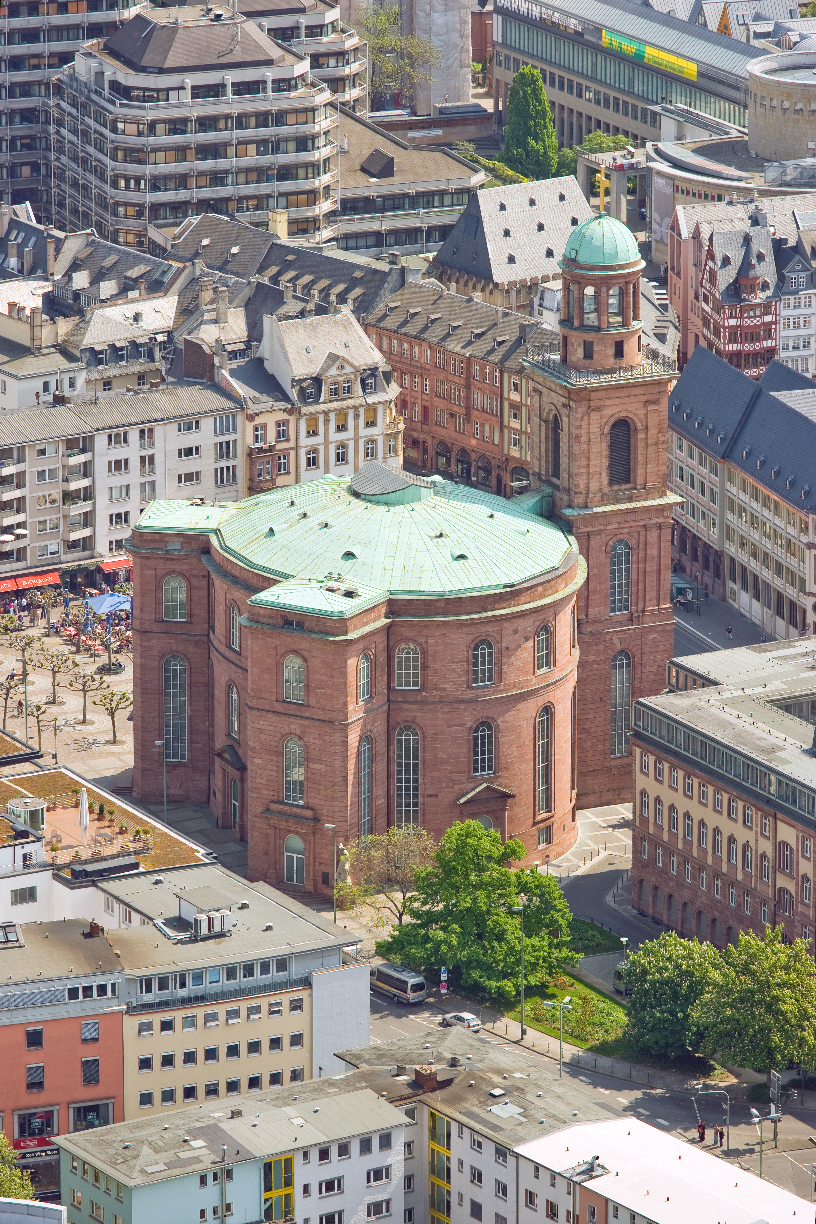 Frankfurt on the Main: Paulskirche (Saint Paul's church) as seen from the Maintower